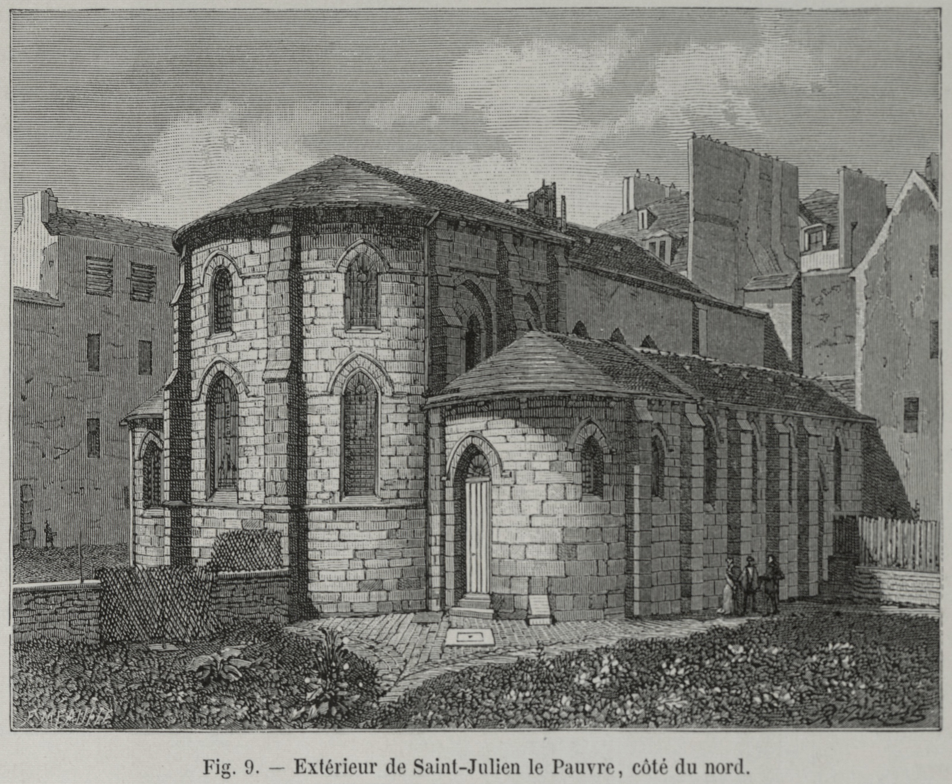 Located near the Sorbonne, the priory Saint-Julien le Pauvre dates back to the Middle Ages. This church underwent various architectural changes throughout the centuries, and was nearly destroyed following the Revolution.